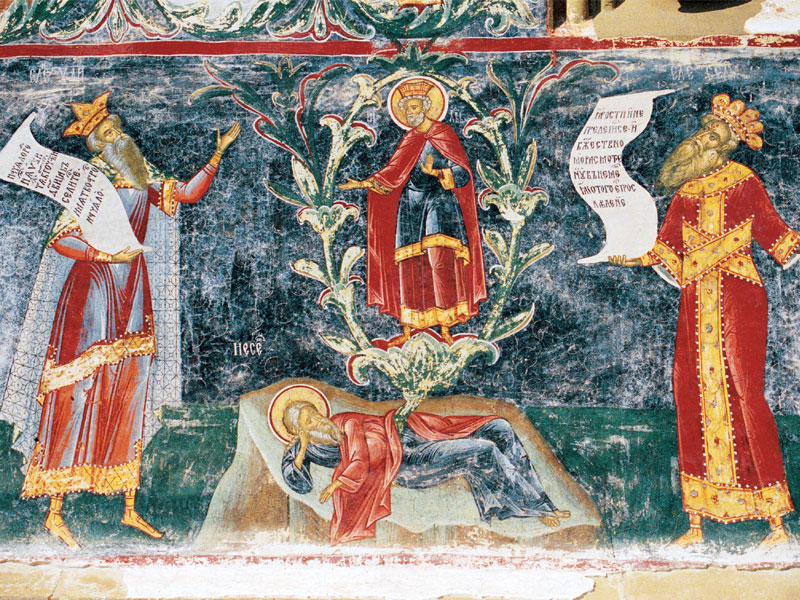 A mural depicting Prophets at Suceviţa Monastery